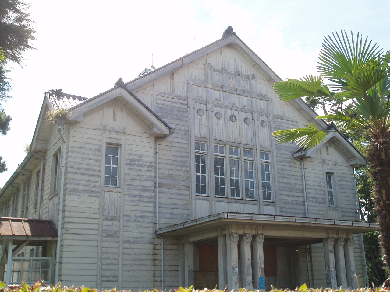 The old auditorium (before repair) of the Faculty of Agriculture, Utsunomiya University. Built in 1924. Located in Utsunomiya City, Tochigi Prefecture, Japan. Photograph taken from outside the site.